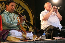 Roland Becker and Nadaswaram